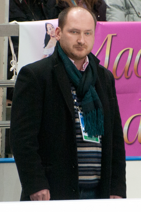 2011 Cup of Russia, free skating.